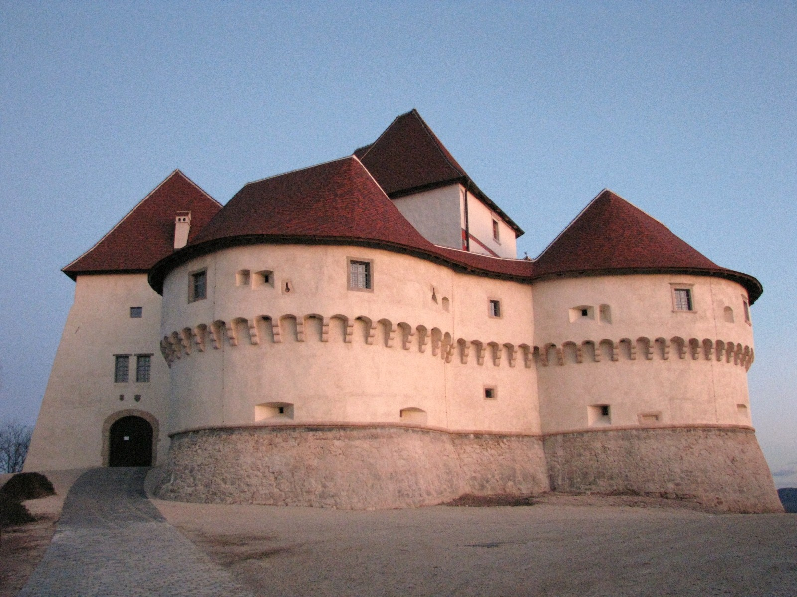 Veliki Tabor Castle